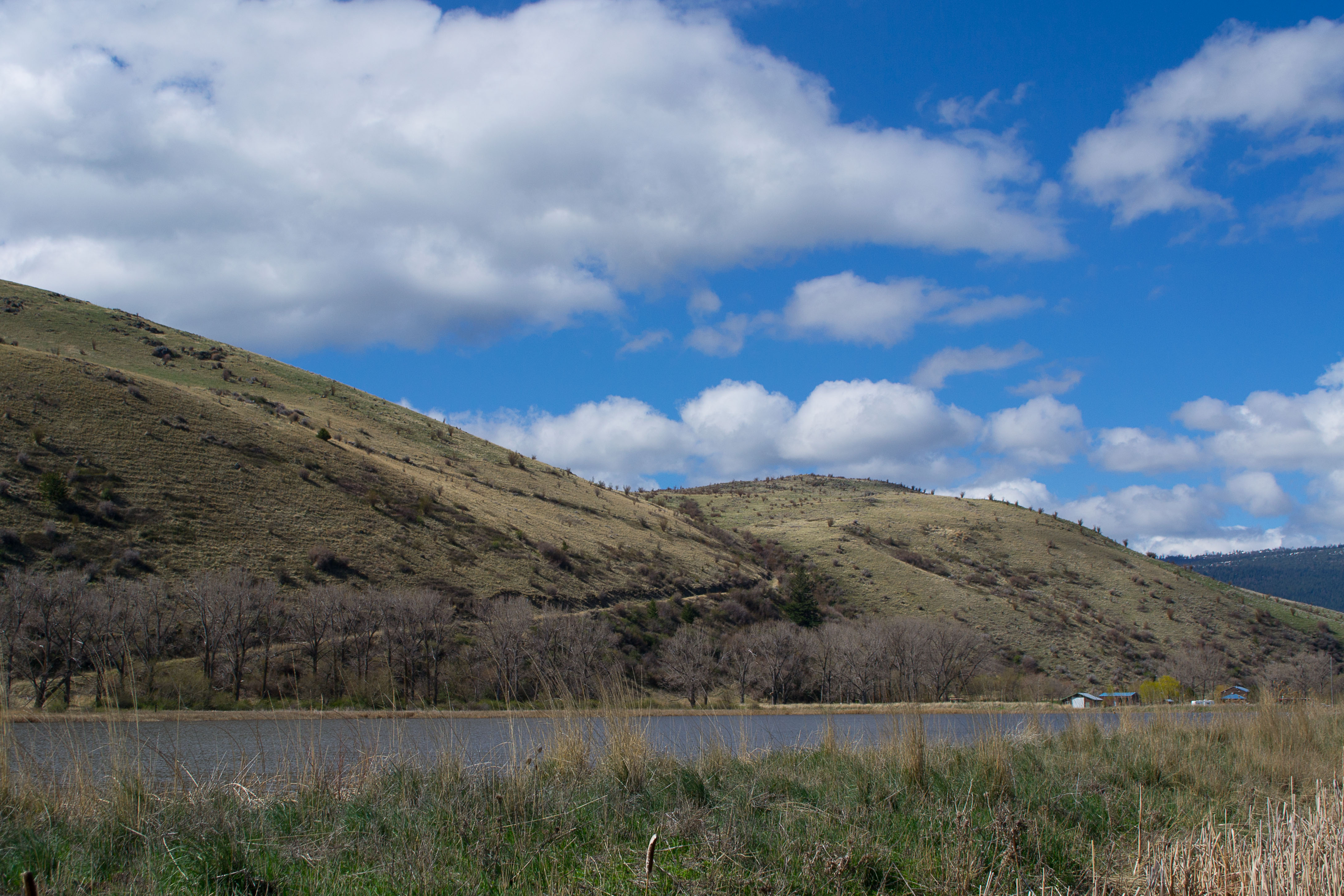 Hot Lake Springs, Oregon